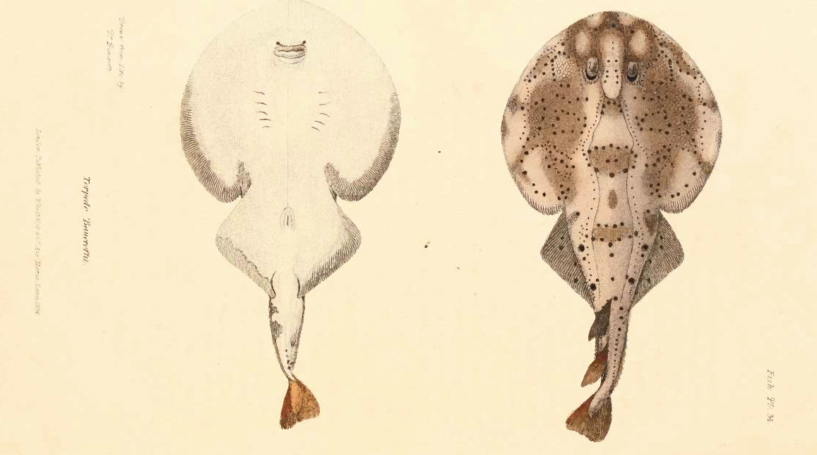 Narcine bancroftii syn. Torpedo bancroftii